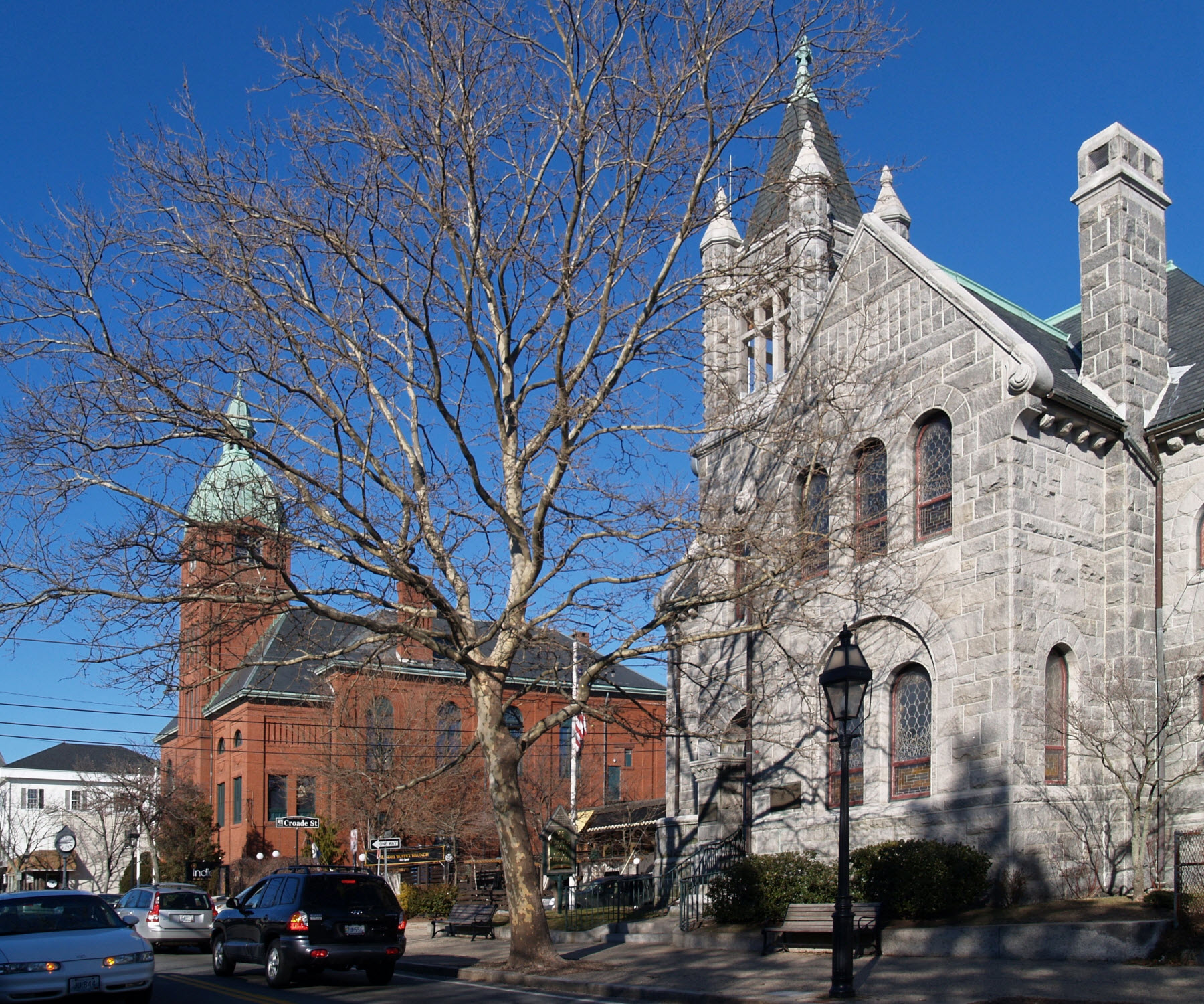 Warren Rhode Island, with library and town hall